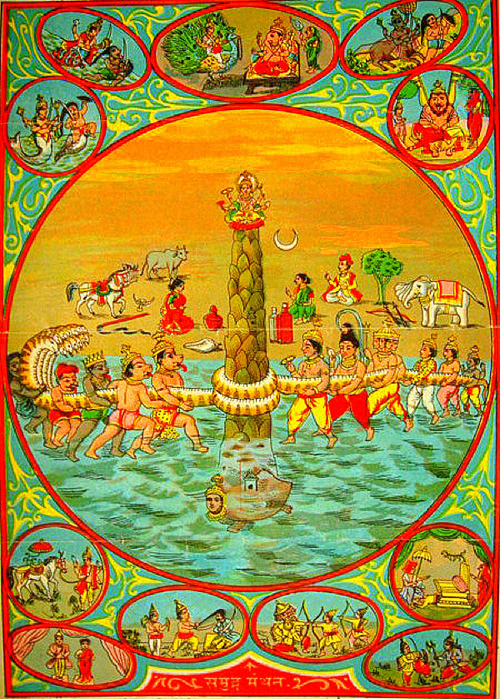 The churning of the Ocean of Milk, in a bazaar art print, c.1910's; the Suras or gods are on the right, the Asuras or demons on the left Source: ebay, Nov. 2006